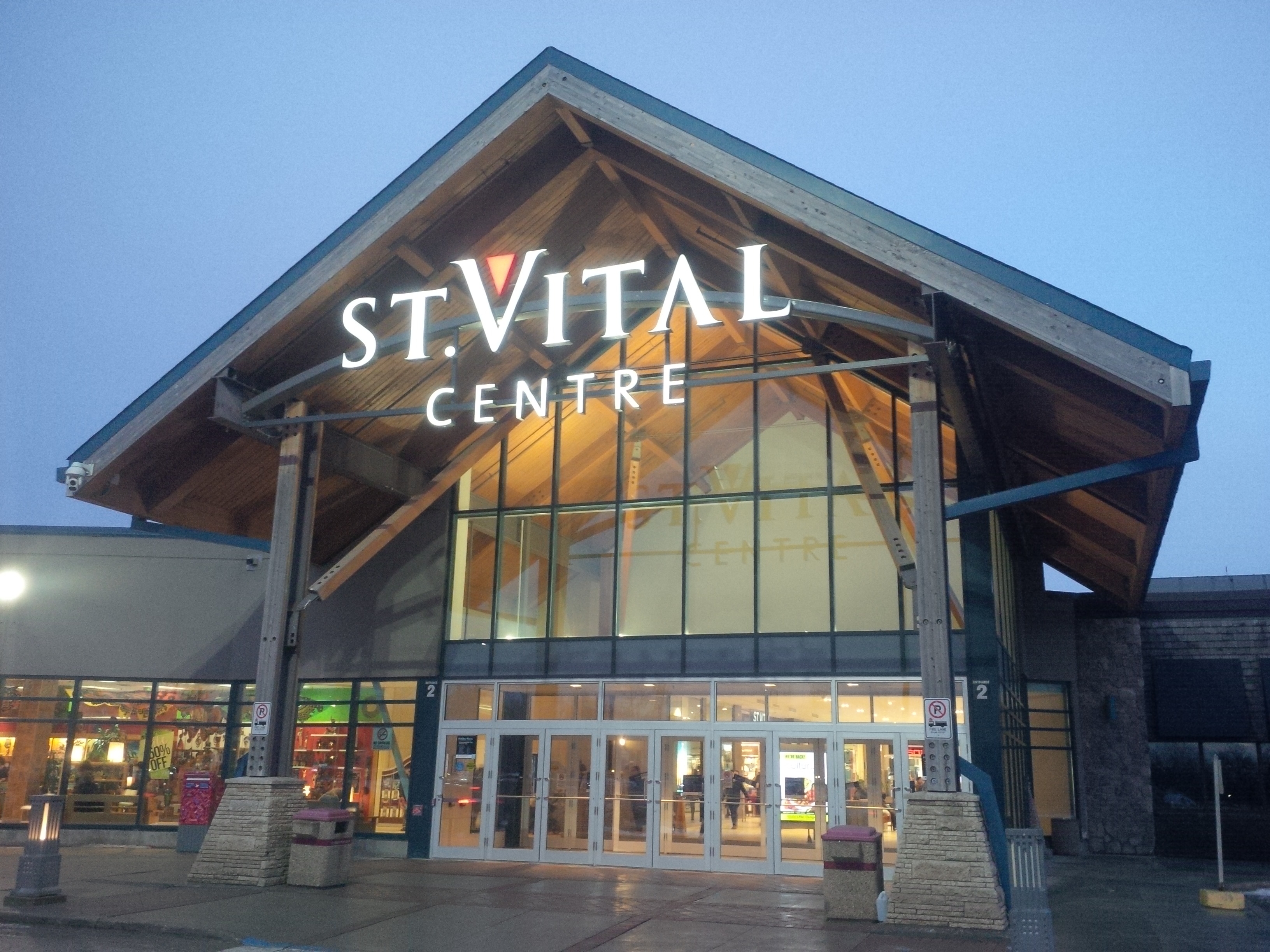 Entrance to St. Vital Centre (2019).